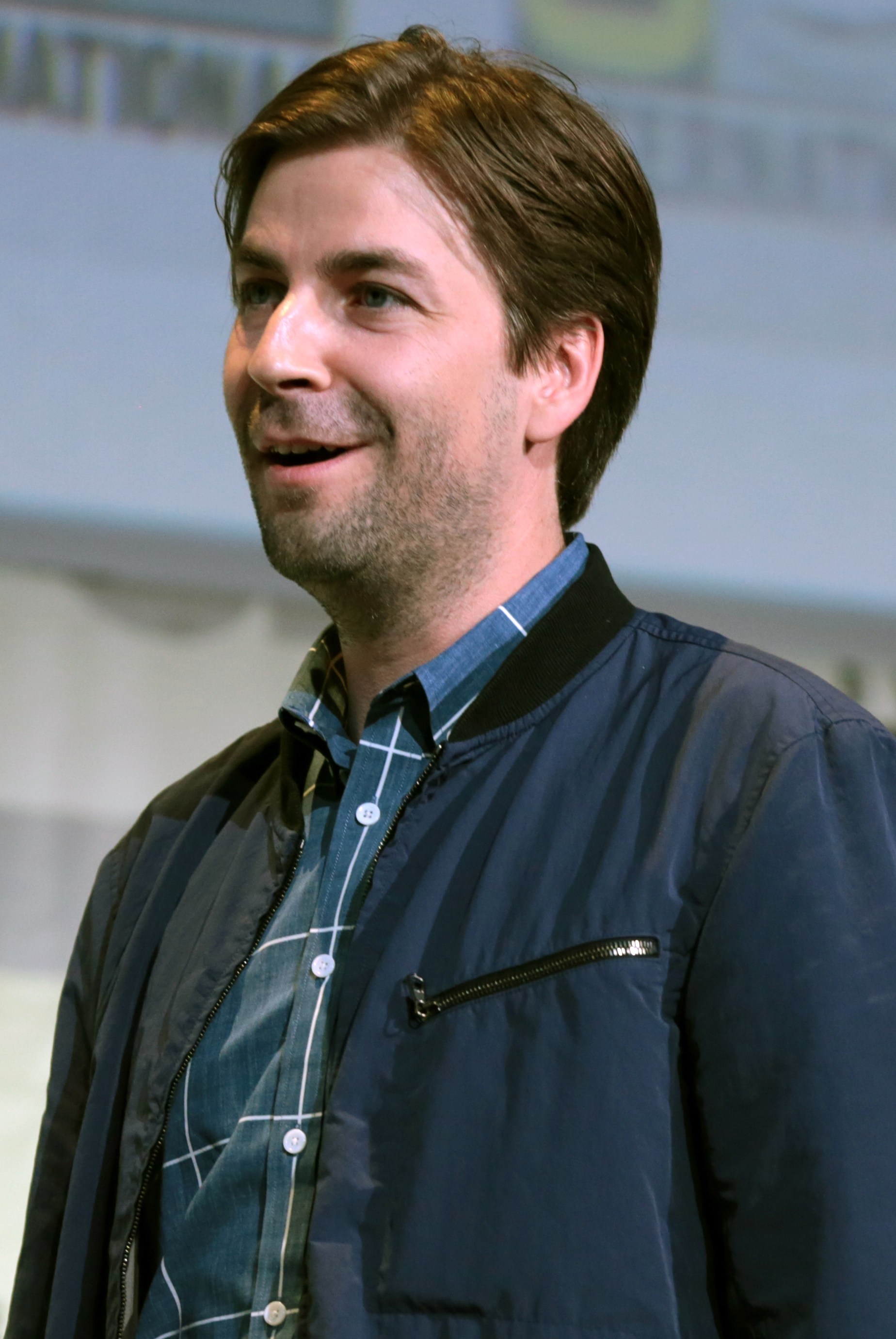 Jon Watts speaking at the 2016 San Diego Comic-Con International in San Diego, California.